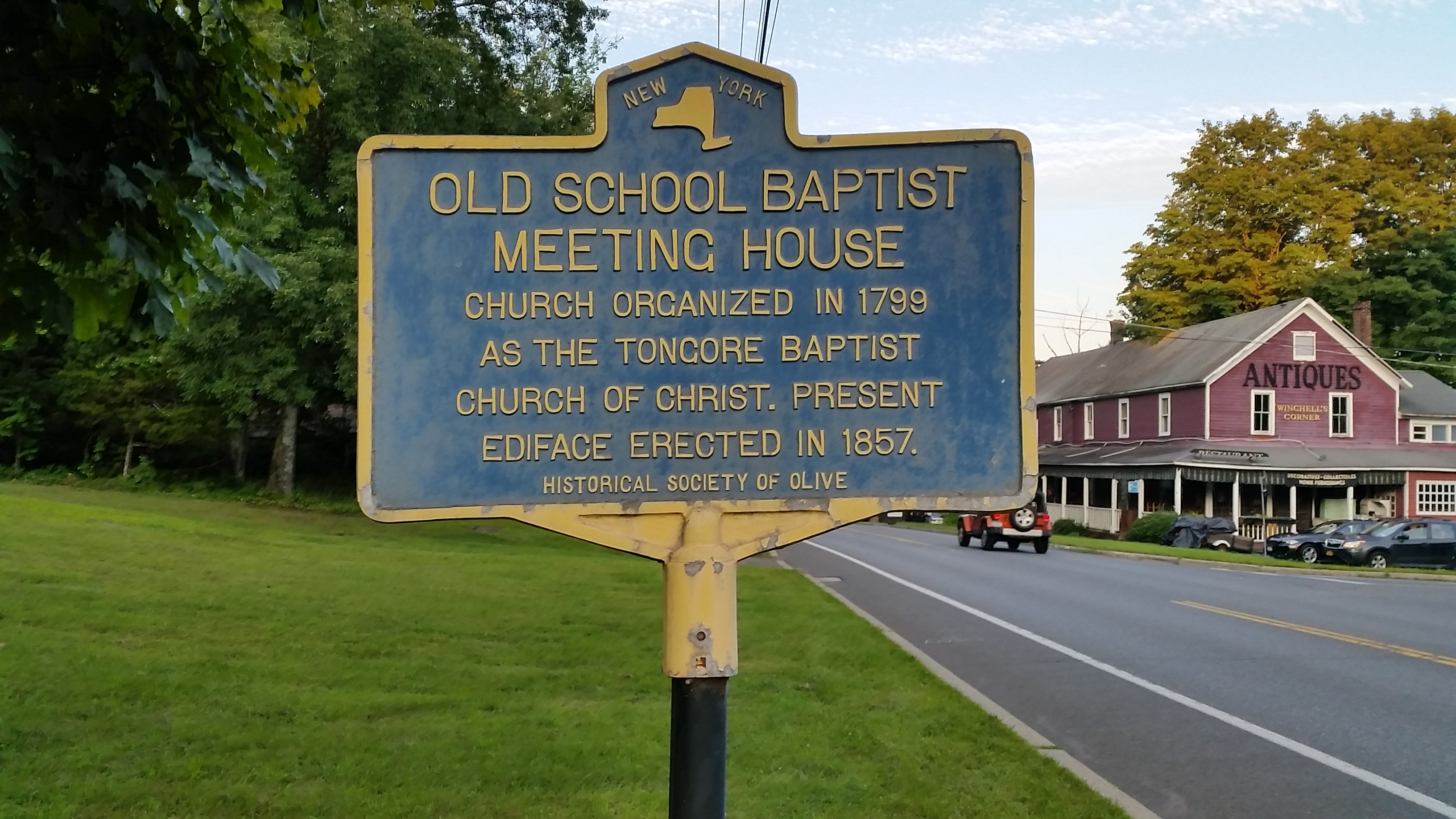 New York State historic marker for an "old school Baptist" meeting house